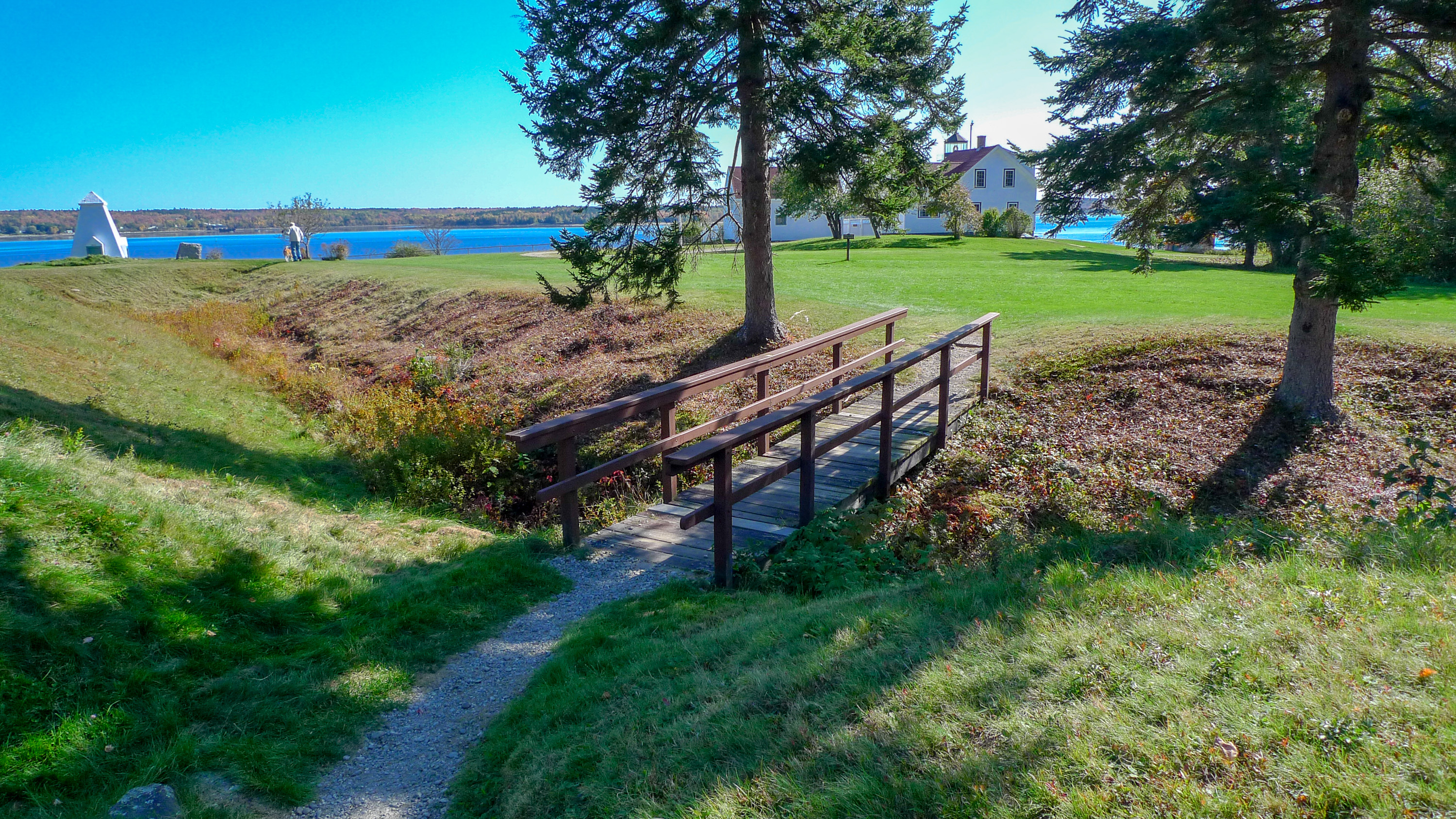 Scene at Fort Point State Park, Stockton Springs, Maine